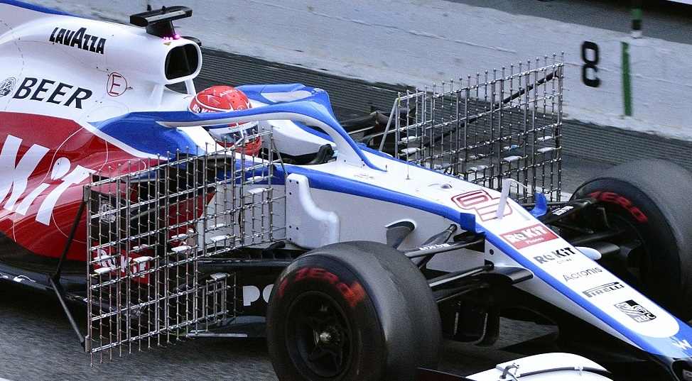 Formula 1 Pre-Season Testing 2020 / Circuit de Barcelona / Williams FW43 / George Russell / GBR / ROKiT Williams Racing